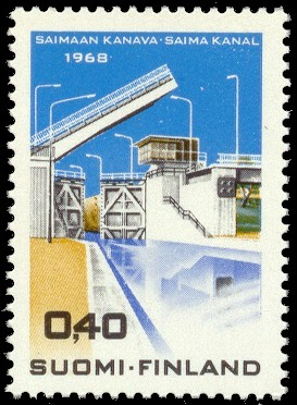 Postage stamp depicting one of the lock stations of the Saimaa canal in Finland